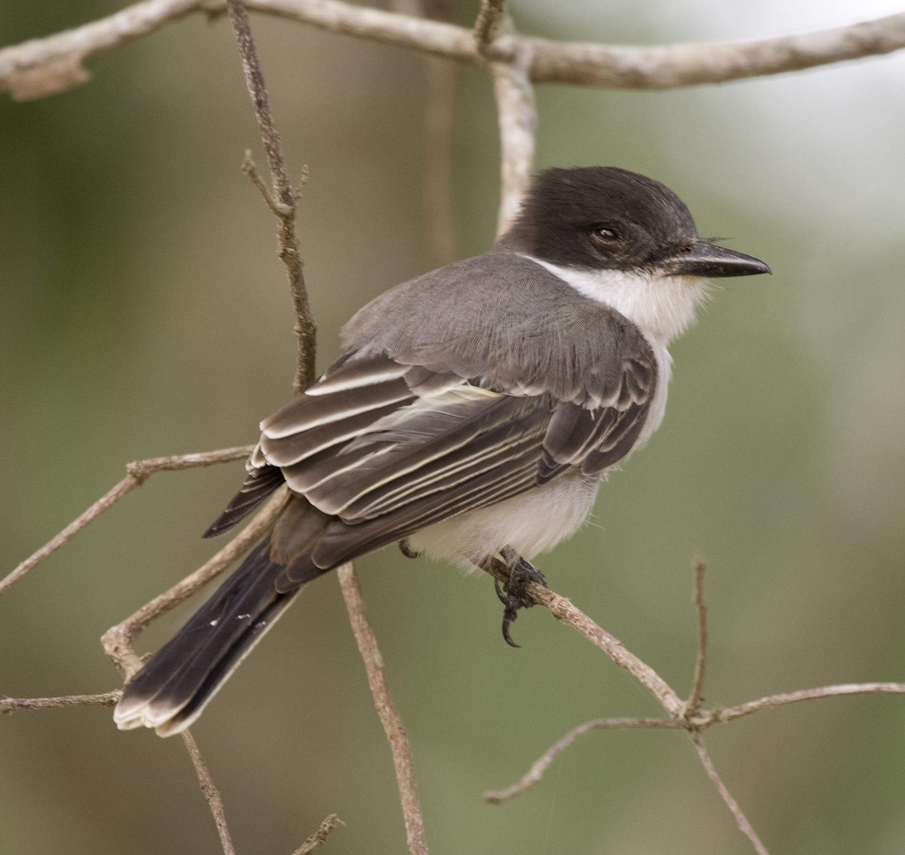 A Loggerhead Kingbird in Camagüey Province, Cuba.